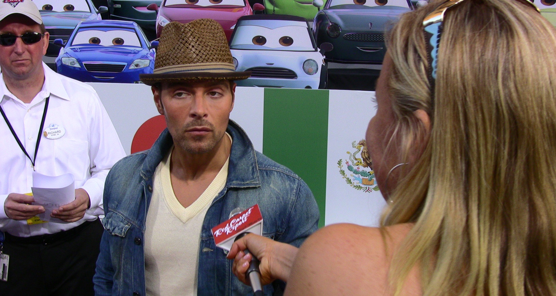 Actor Joey Lawrence at the "Cars 2" World Premiere. To watch the video interviews, visit the Red Carpet Report channel on Mingle Media TV at